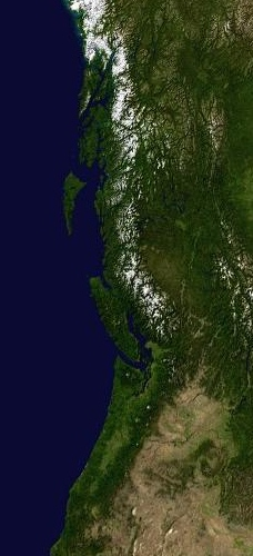 Cropped from Image:PacNW satellite.JPG, with a tighter view of BC, Washington, and Oregon.